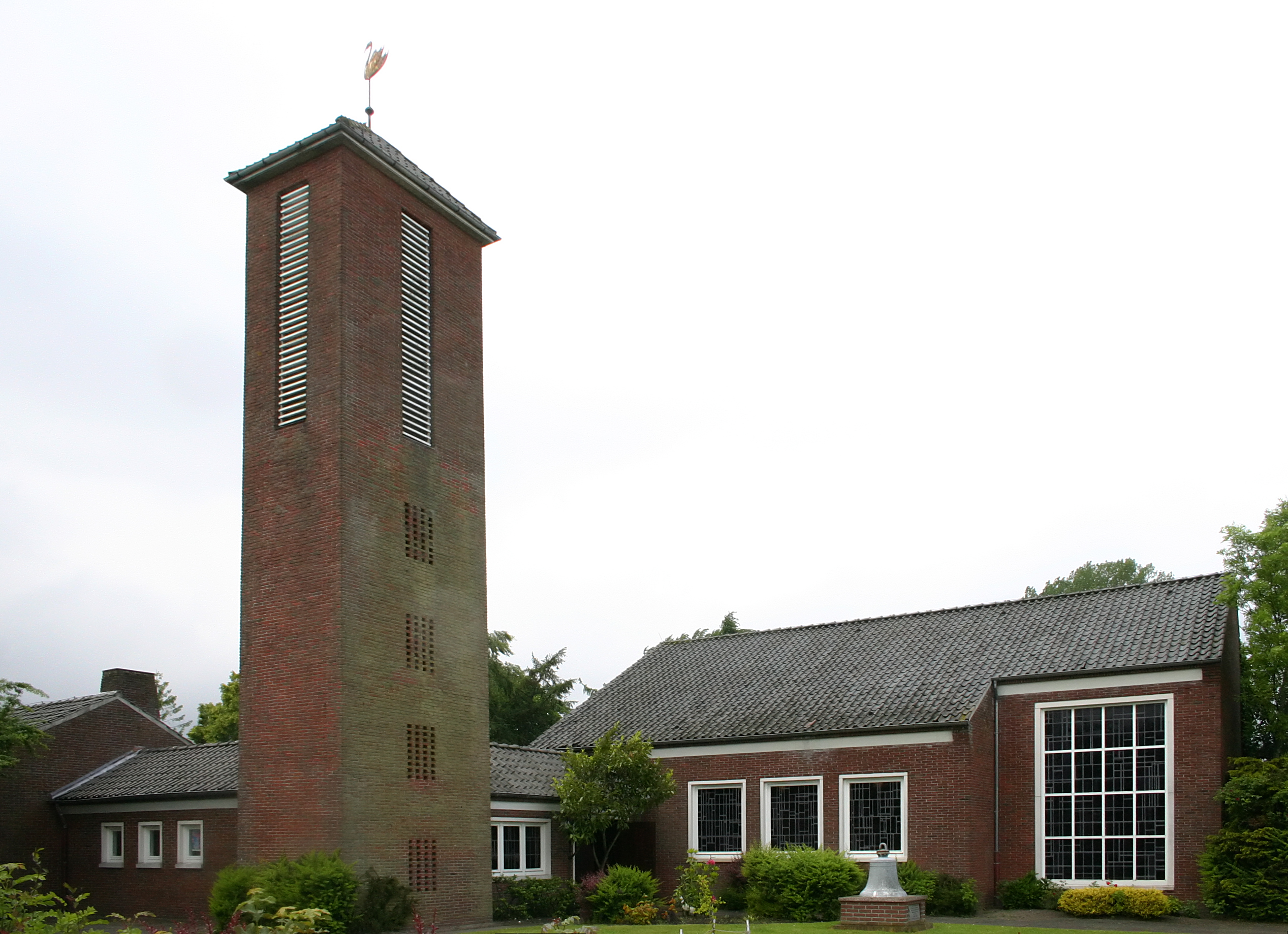 Historical Grace Church in Tidofeld (a locality of Norden), district of Aurich, East Frisia, Germany. Now a document centre on the history of expulsion, expellees and refugees from the former eastern territories of Germany.